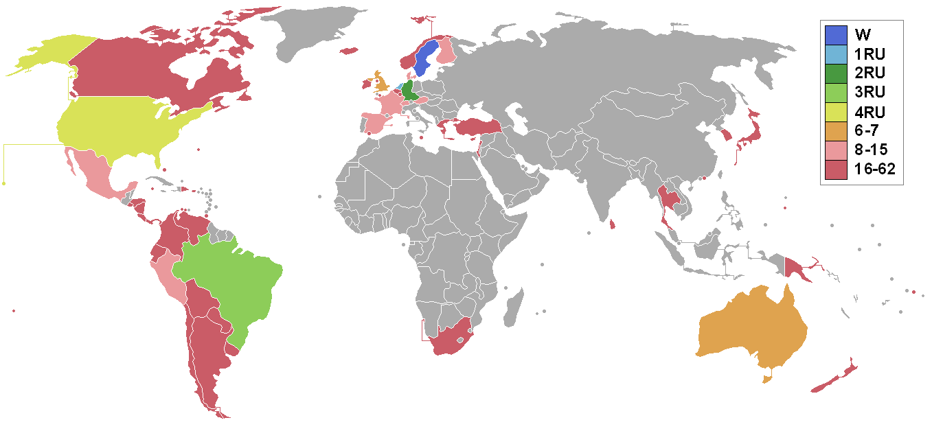 Ms Universe 1977 results map